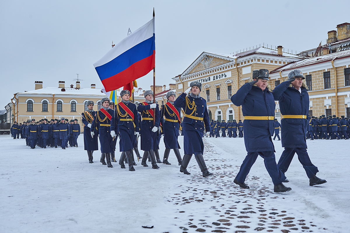 Handing the battle banner in 6th Air and Air Defense Forces Army